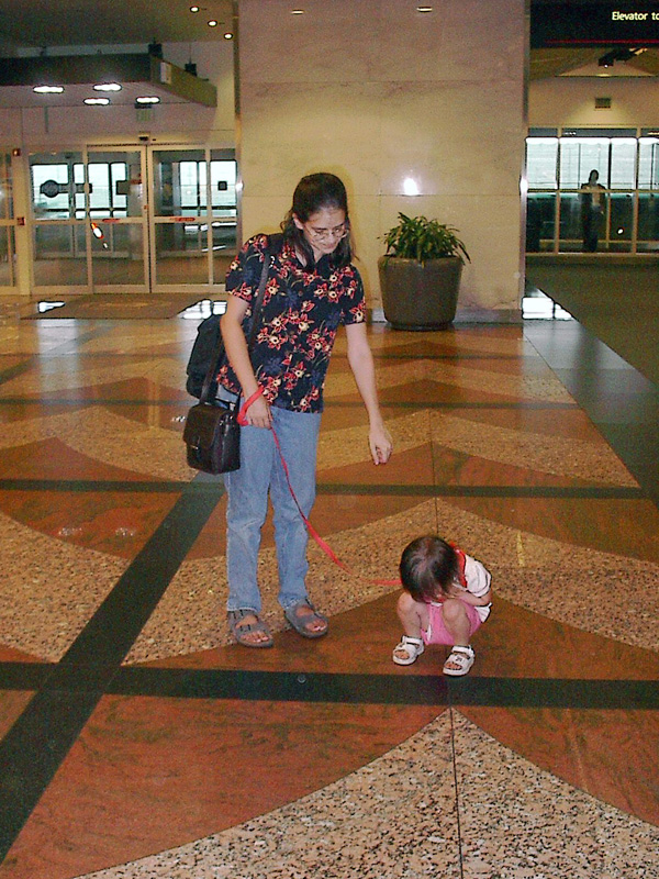 At the airport.